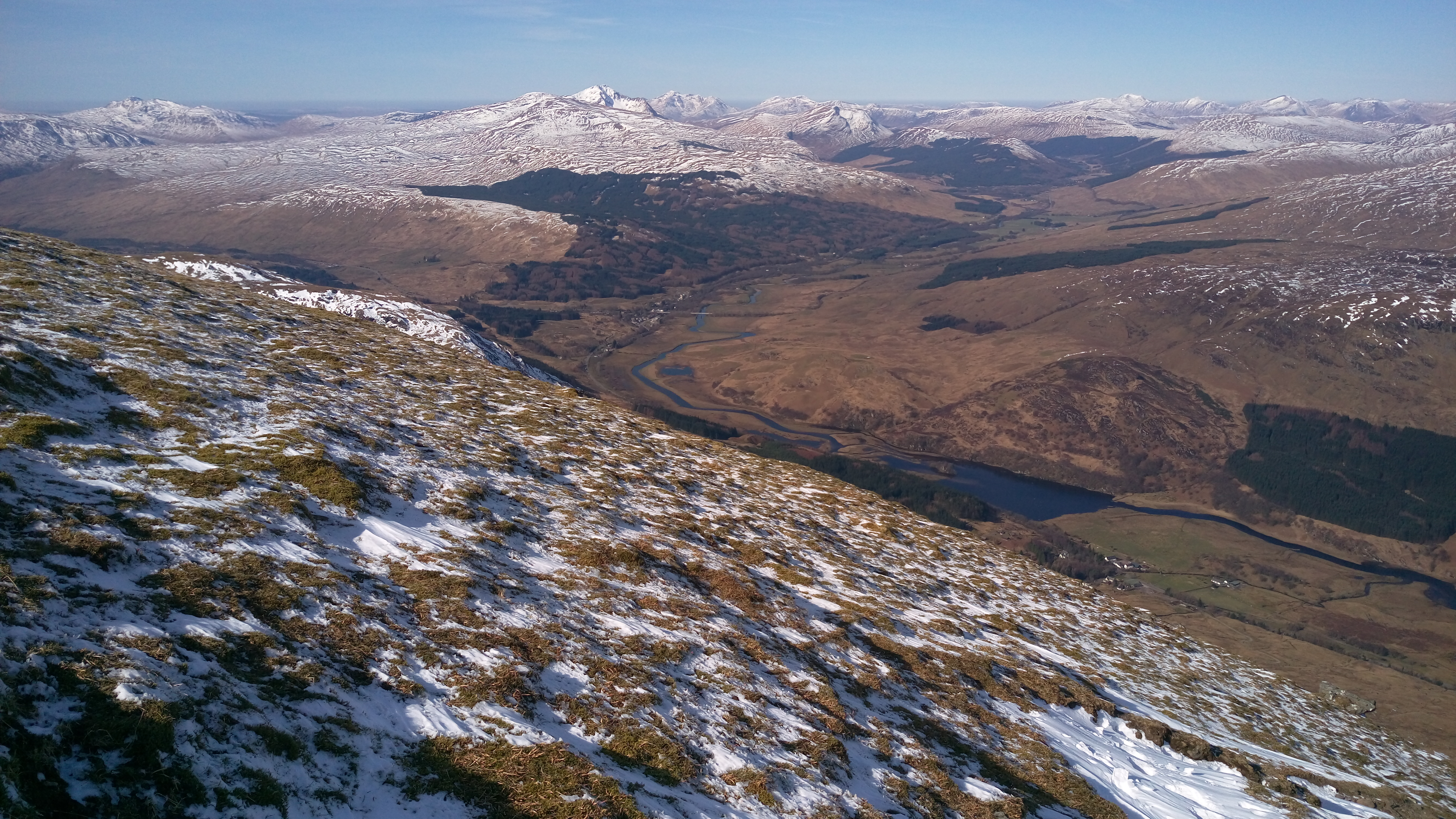 View towards Strath Fillan, Loch Dochart, River Fillan and the Ben Lui Munros in the distance.